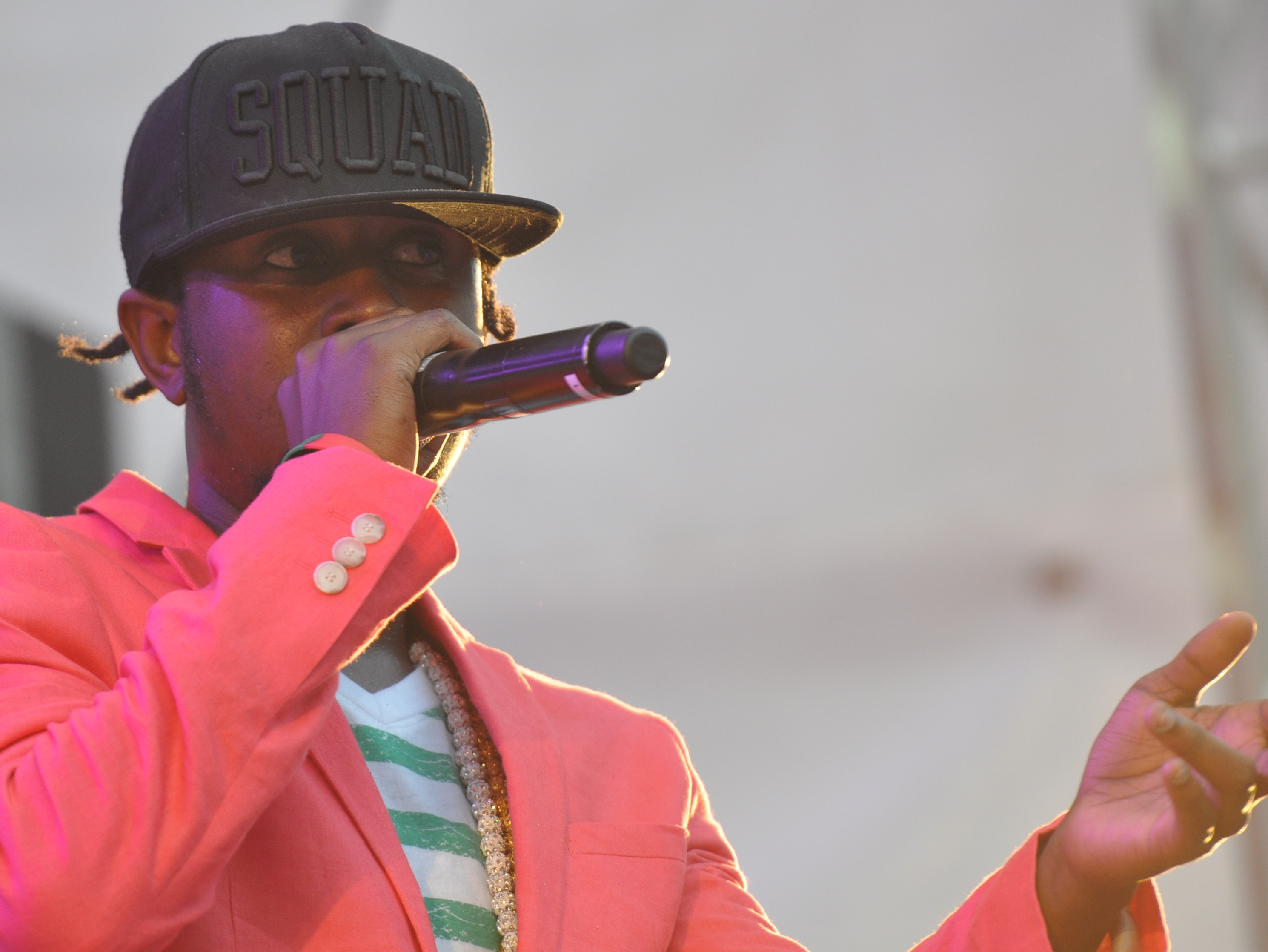 Popcaan with Band on green stage of the Summerjam 2013 in Cologne